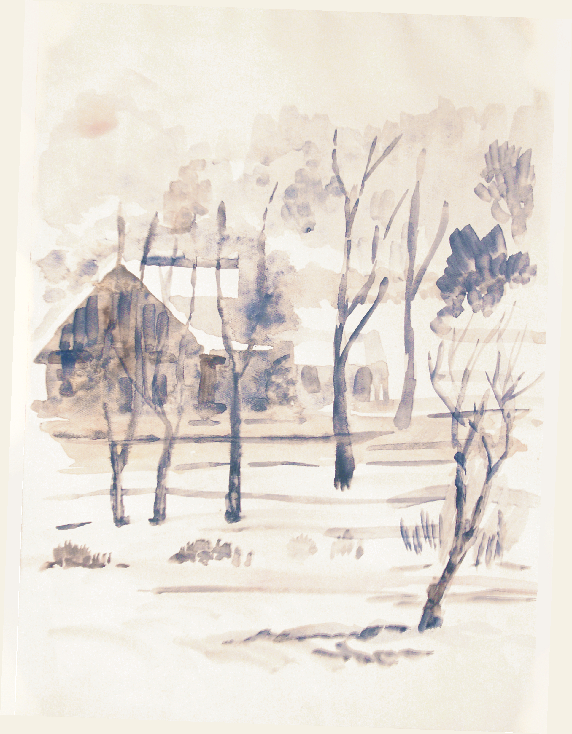 M. Schultz. Thaw. 1978. Watercolor